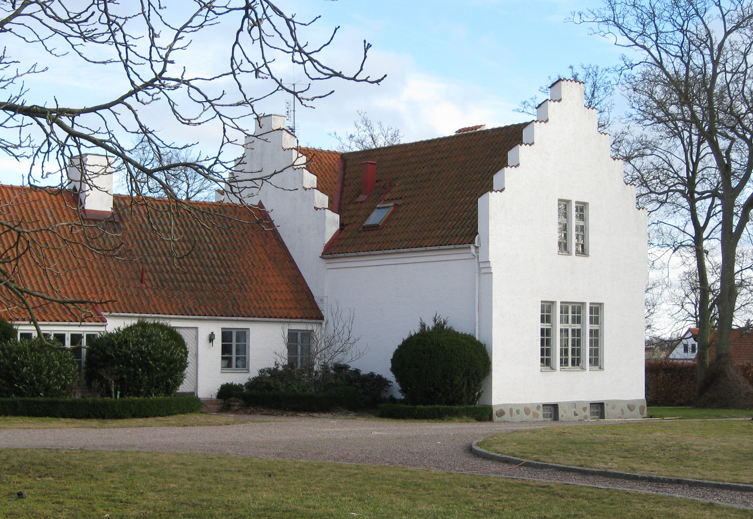 Mansion at Ängavallen farm in Skåne, Sweden